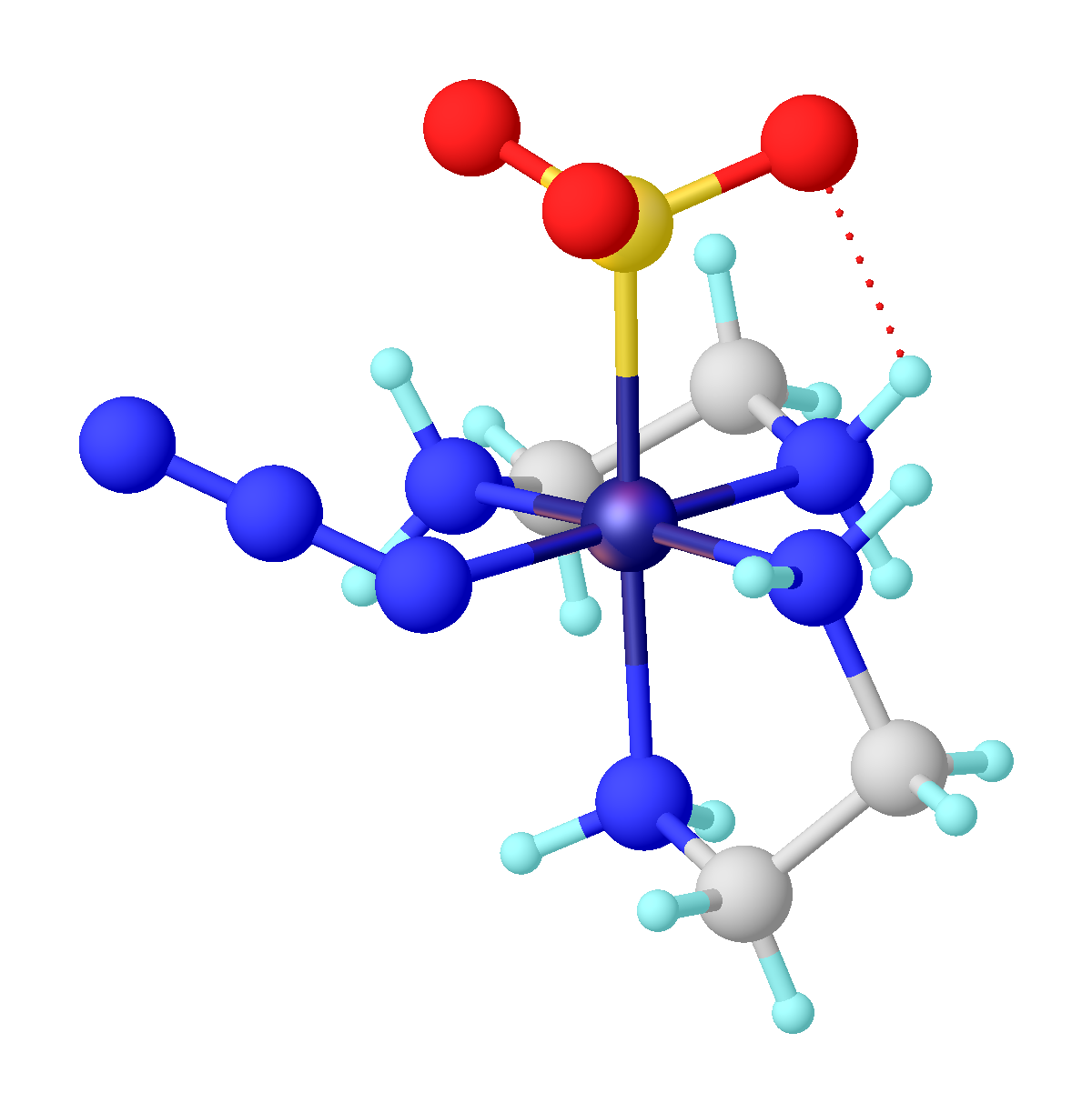 Co(en)2(SO3)N3 from doi 10.1007/BF00673698.